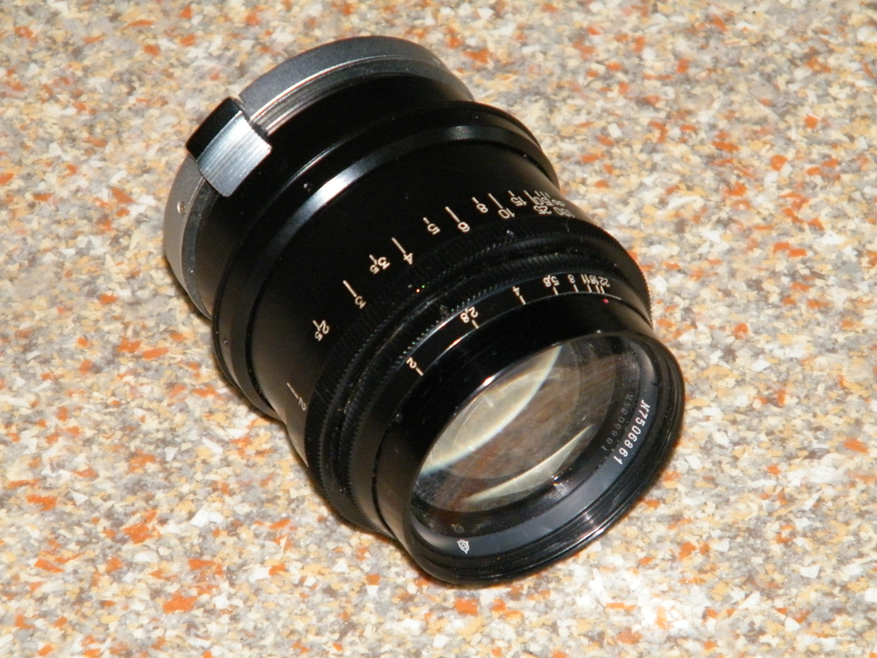 Jupiter-9 (Contax-Kiev lens mount)